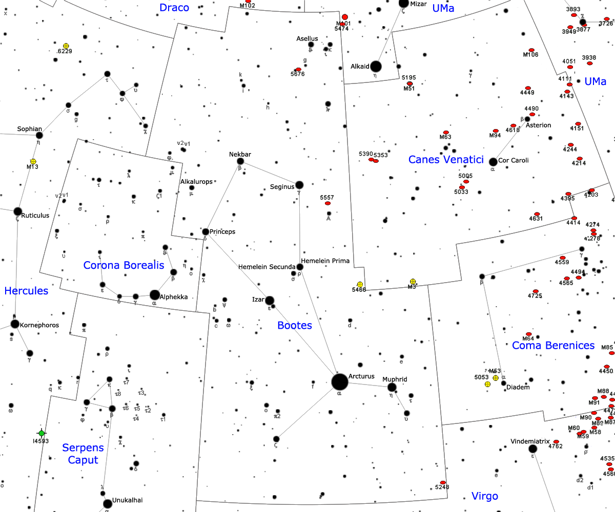 Map of Bootes